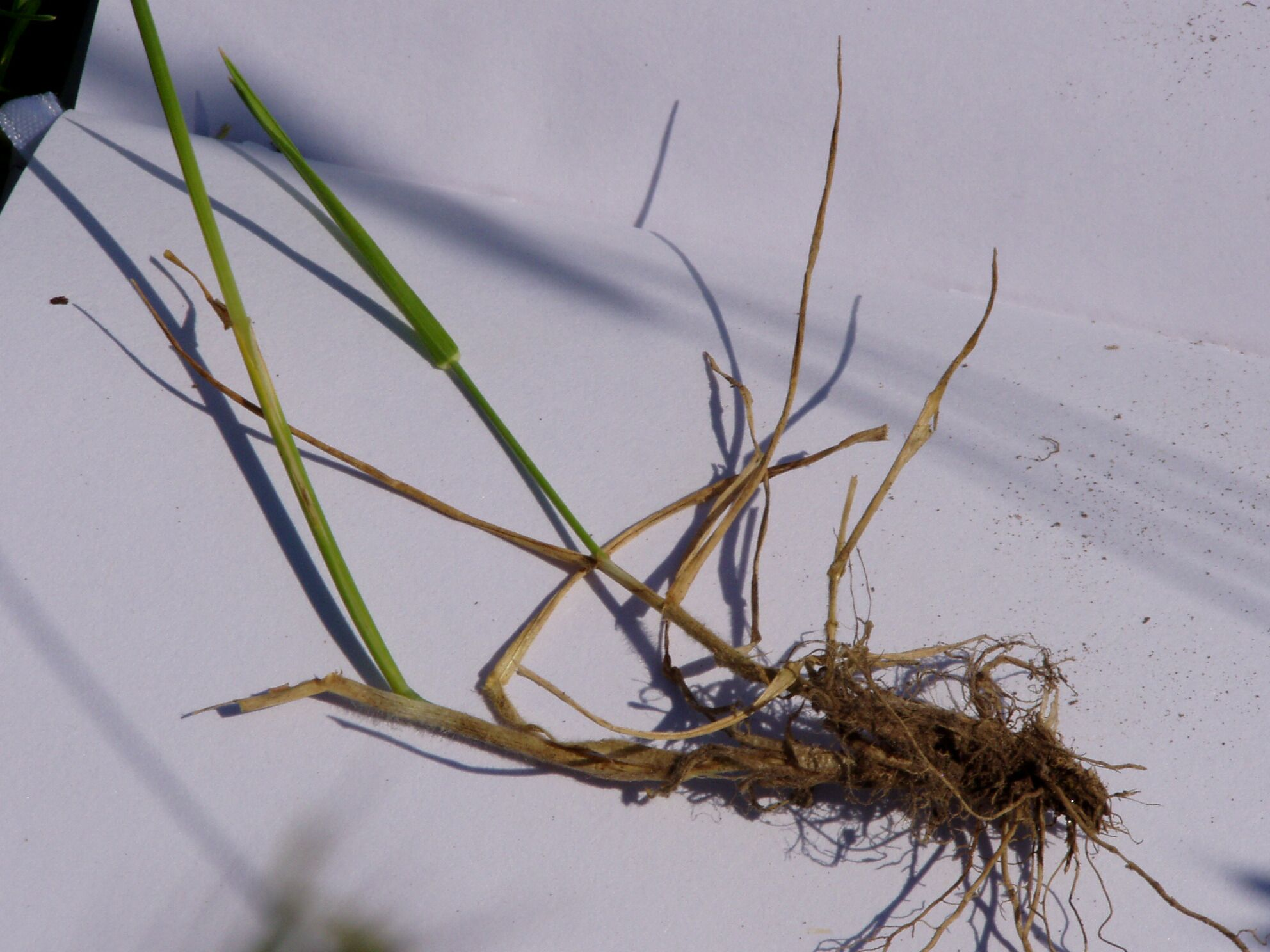 Hordeum secalinum, stolons; photo taken in Elbmarschen near Hamburg, Germany